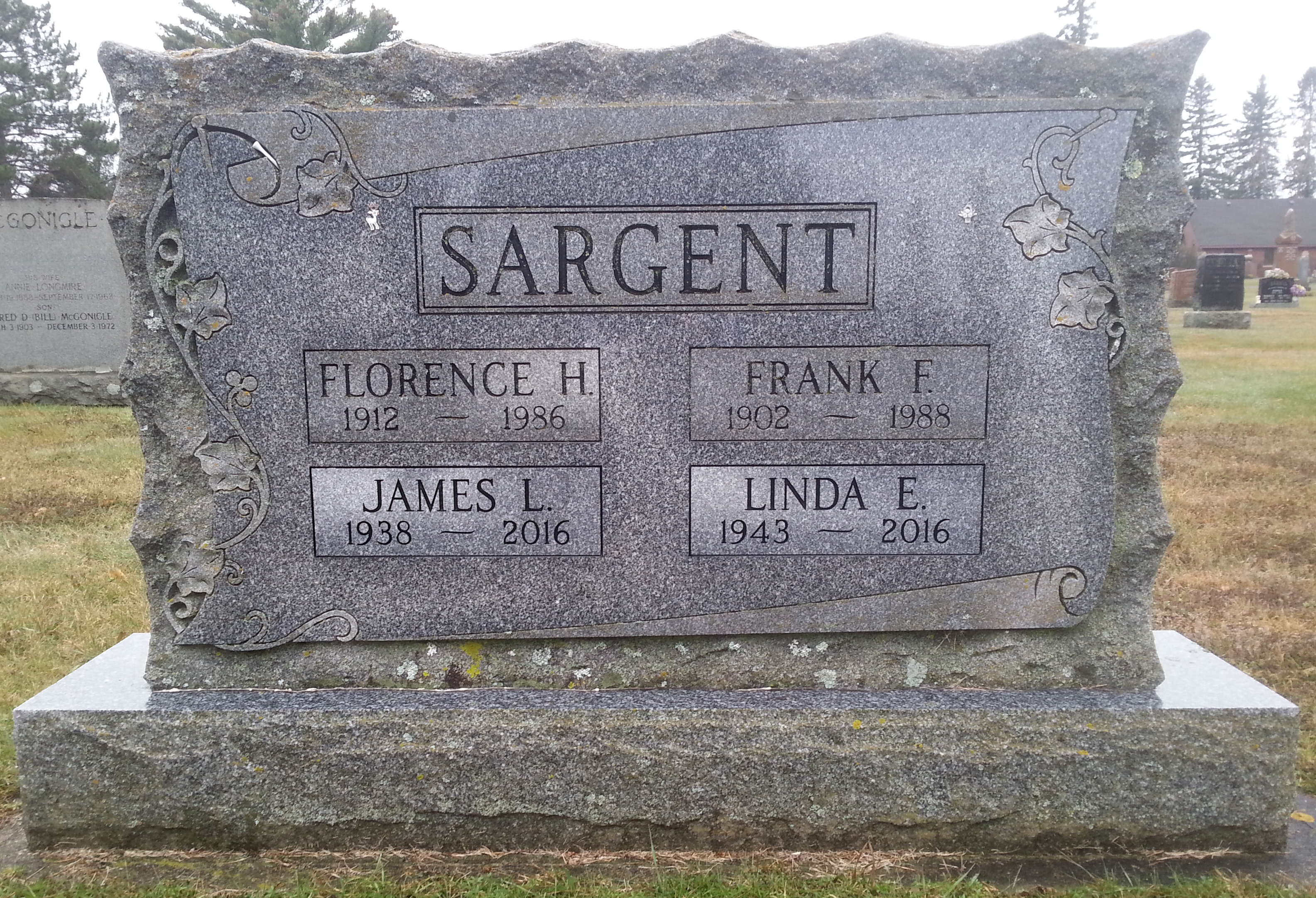 Sargent family grave marker at Riverside Cemetery in Thunder Bay, Ontario